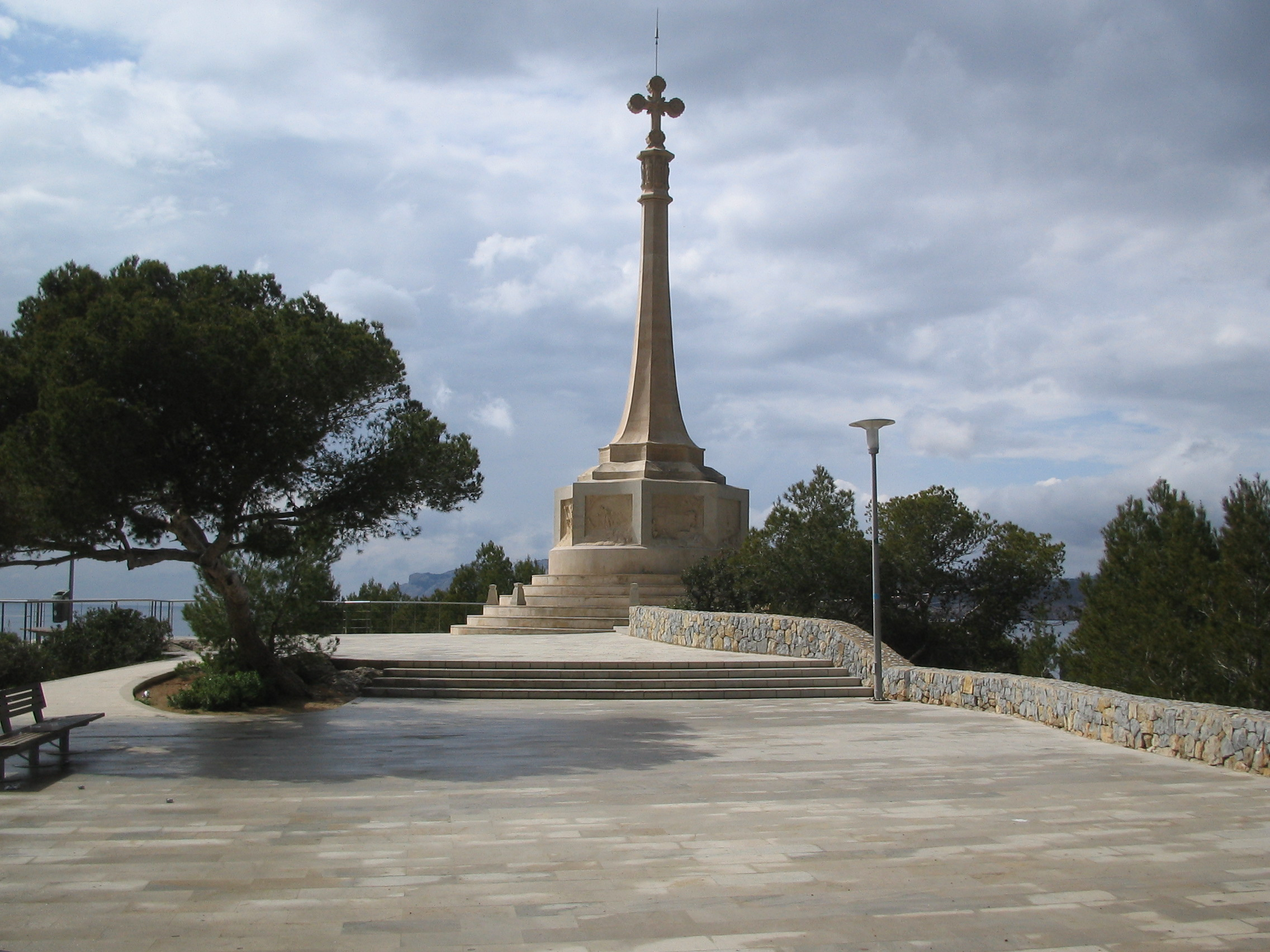 Cross regarding the landing of king Jaime I in the conquer of Mallorca.